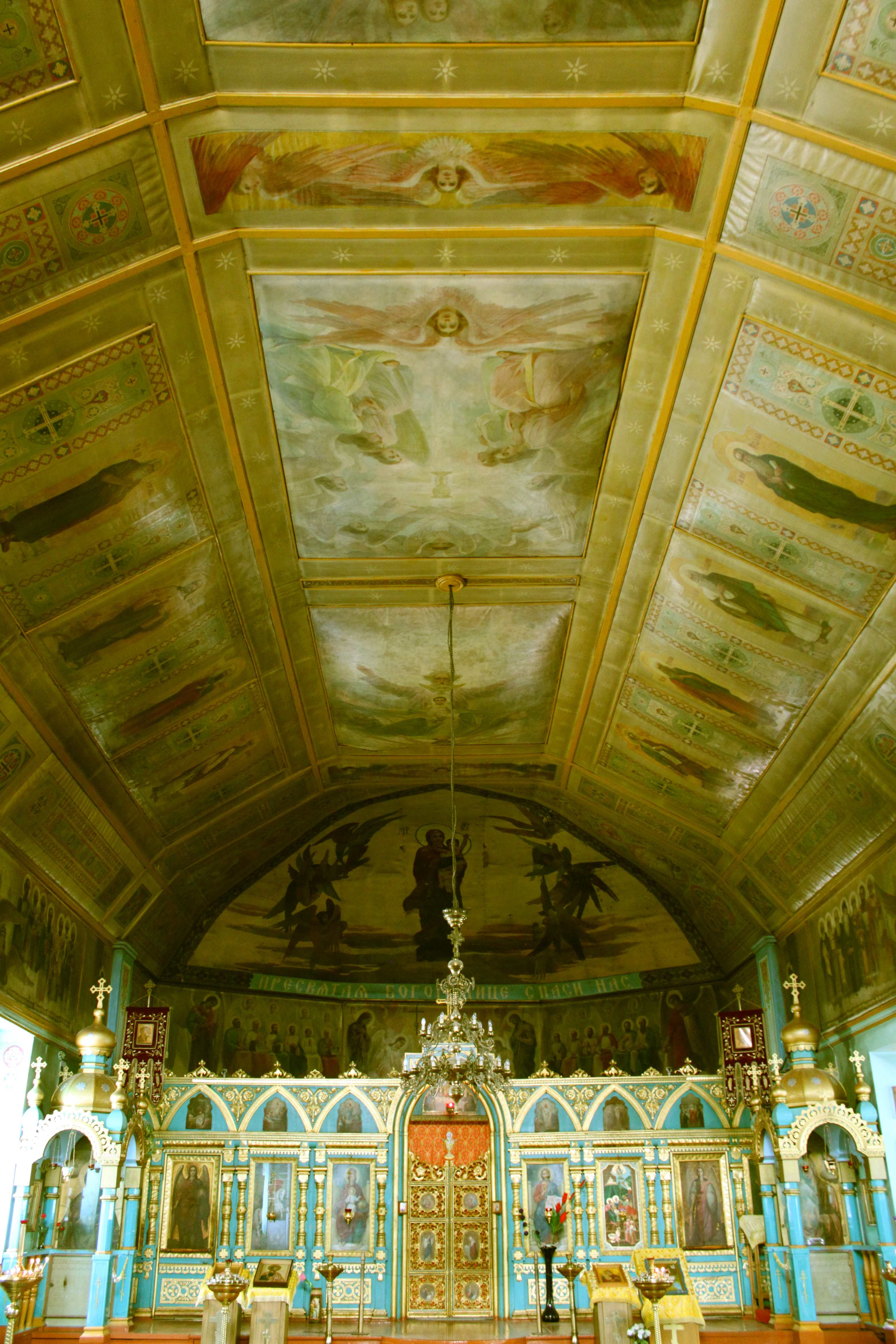 Saint Michael Archangel church in Baku main hall interior